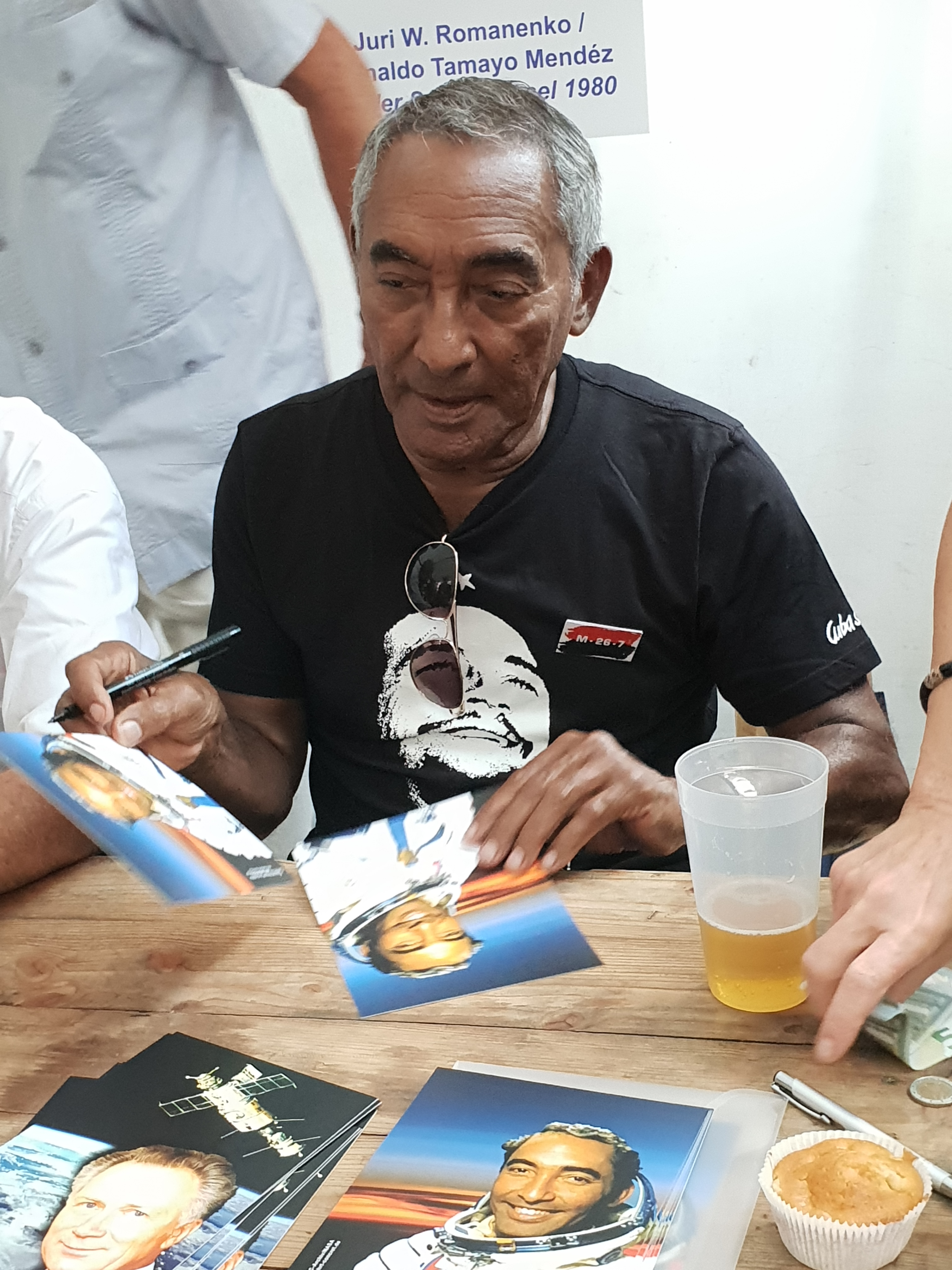 Arnaldo Tamayo at an autograph session with the east-german cosmonaut Sigmund Jähn, July 2018